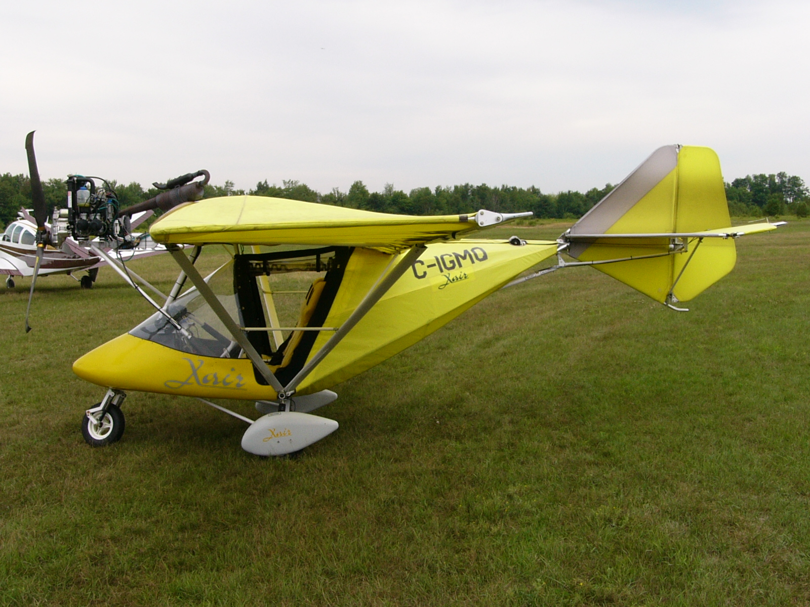 A Ran Kar X-Air at Hawkesbury, Ontario, Canada